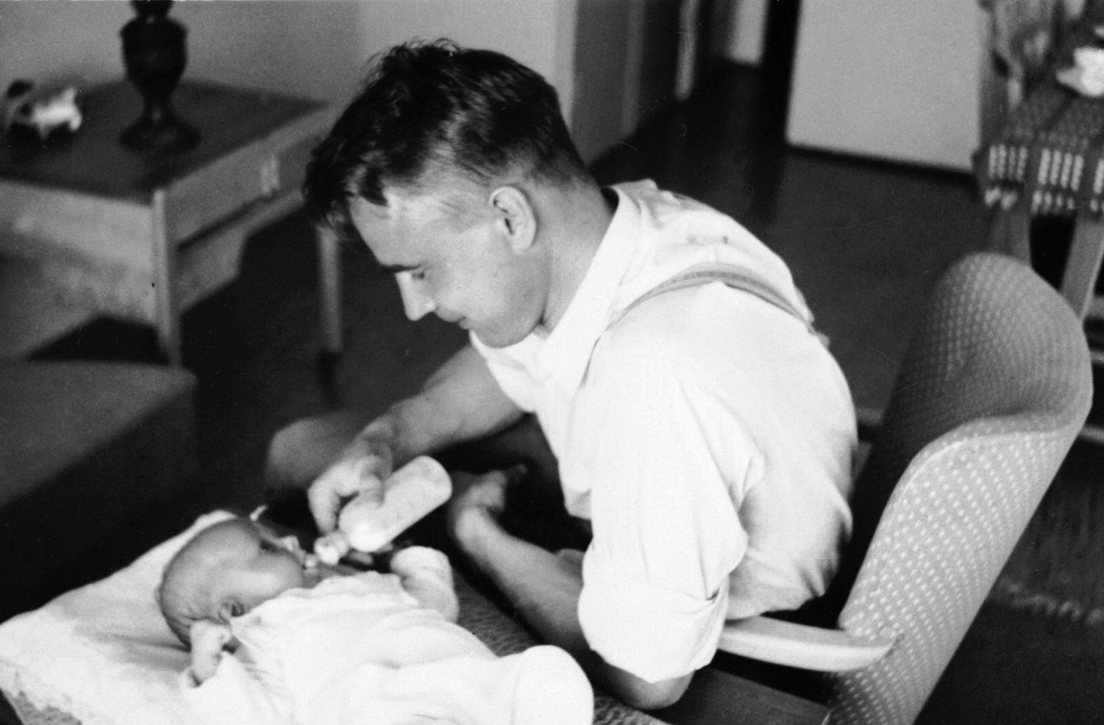 Photograph of the Finnish politician, future president Mauno Koivisto (1923–2017) feeding his daughter Assi.